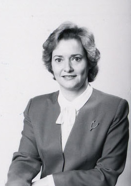 Head Shots of Bonnie Newman and Tom Kniesner